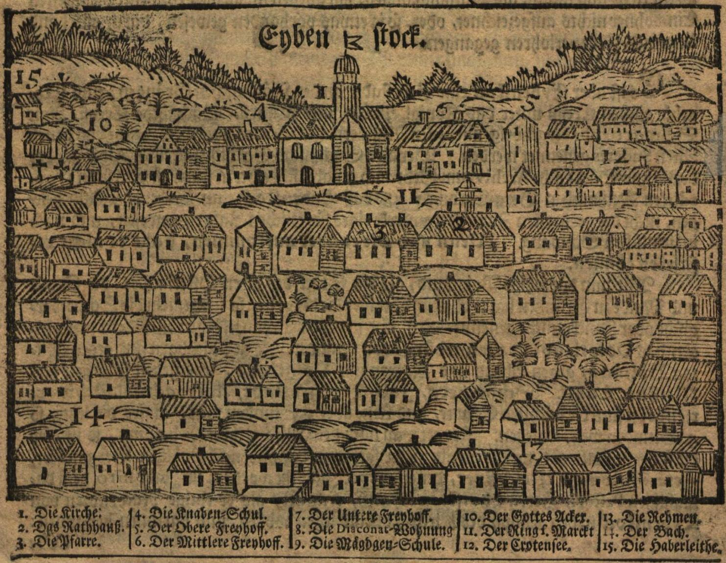 Prospect of Eibenstock, Saxony, ca. 1747.